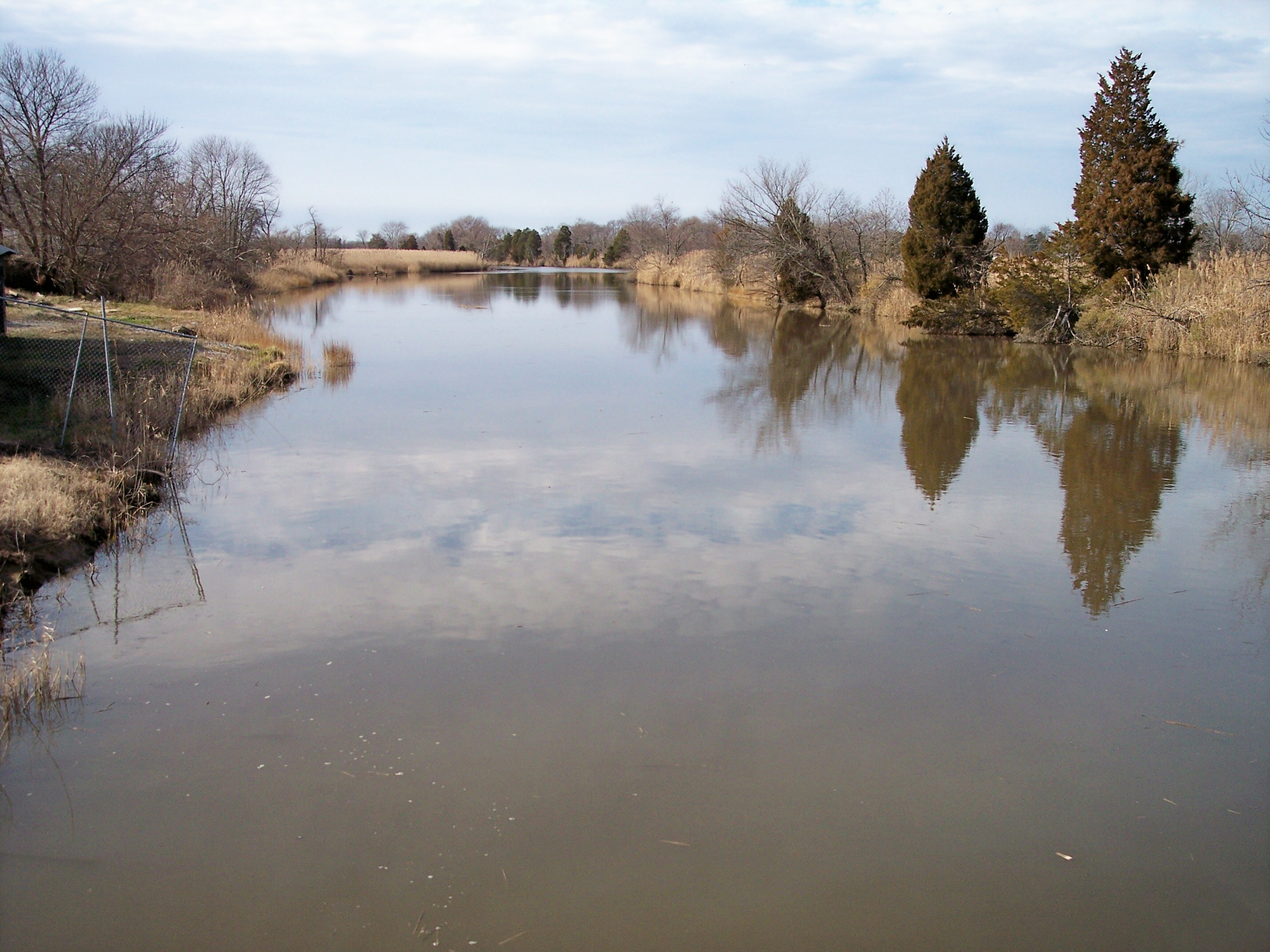 Alloway Creek as viewed downstream from New Jersey Route 49 in Quinton Township, New Jersey.